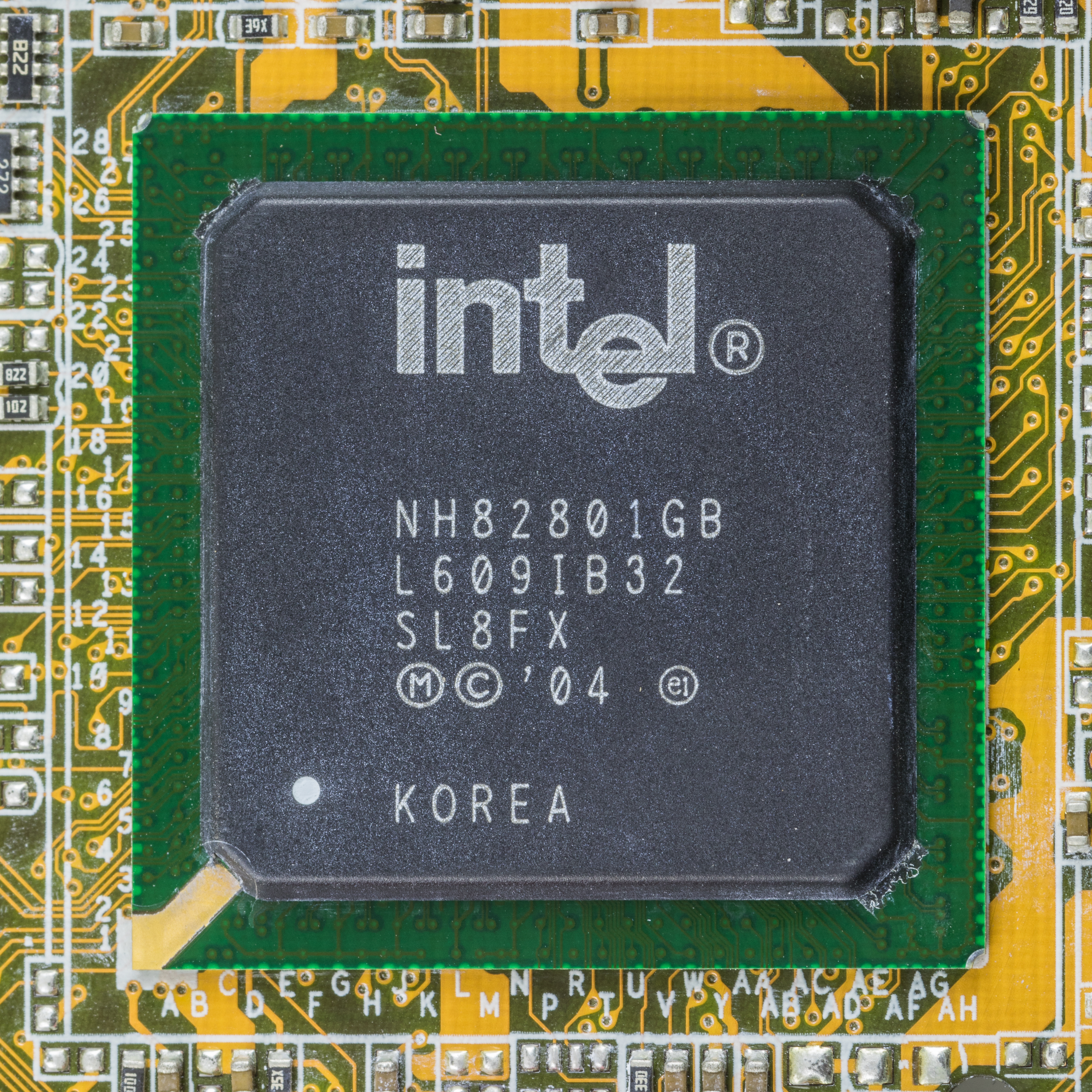 Asus P5PL2 - Intel NH82801GB - SL8FX - I/O Controller Hub - ICH7 Base